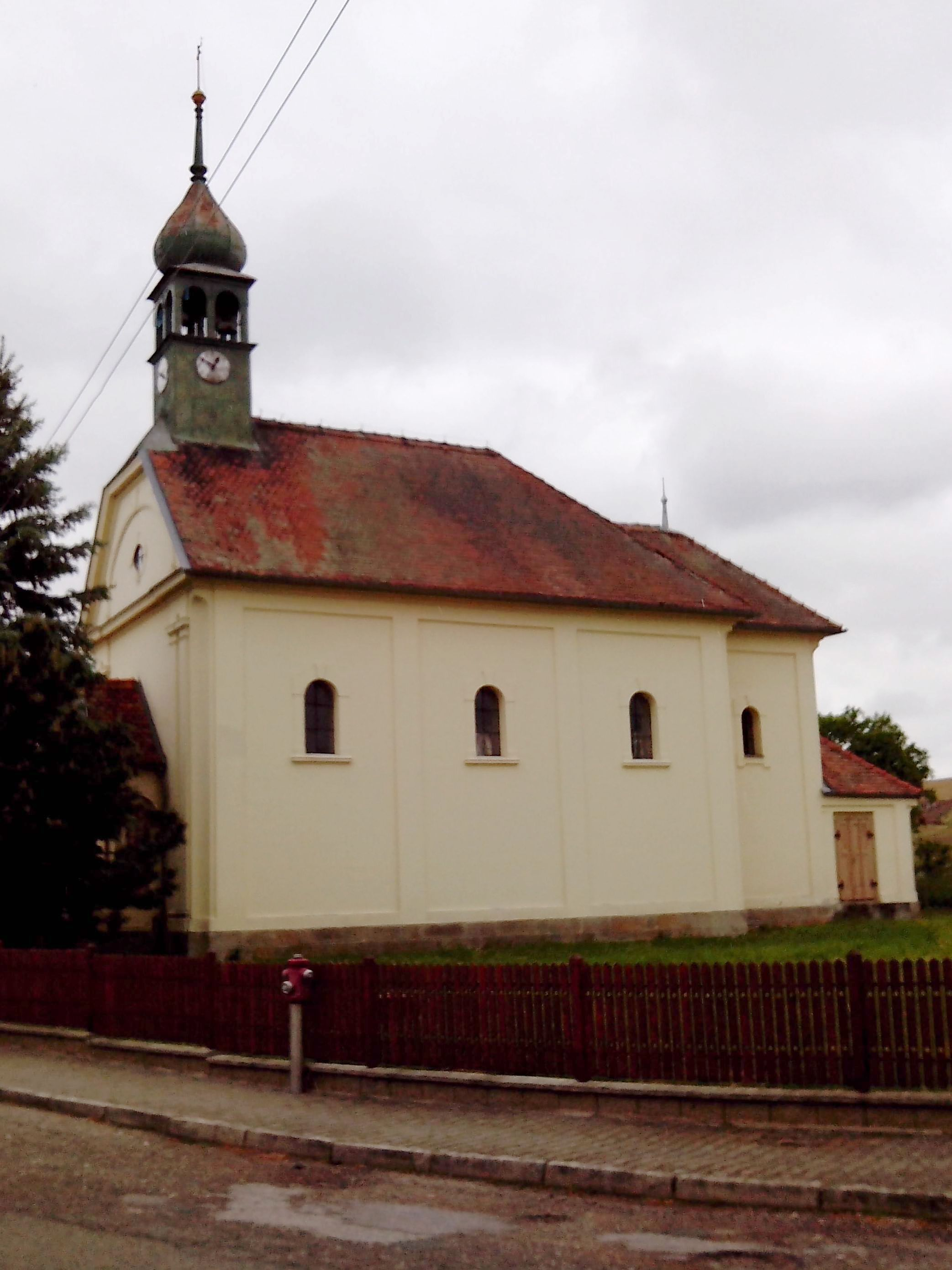 Výrava - chapel of Saint John the Baptist